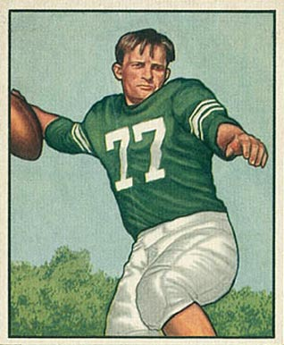 American football player Chet Mutryn on a 1950 Bowman card.